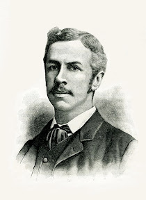 Henry George Moon - Botanical illustrator